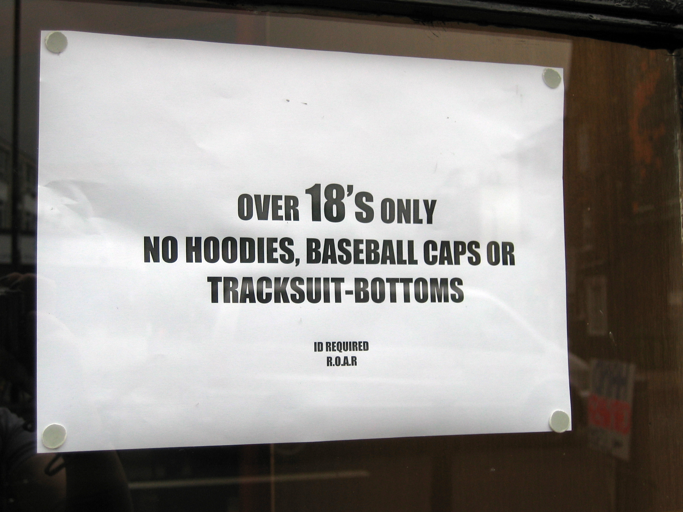 Sign in a London pub window banning hoodies, baseball caps and tracksuit bottoms.